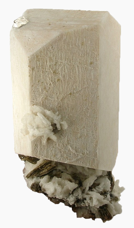 Feldspar :: Locality: Virgem da Lapa, Jequitinhonha valley, Minas Gerais, Southeast Region, Brazil (Locality at ) :: Size: 18 x 21 x 8.5 cm. :: A superb, textbook feldspar crystal. Not just is it big, but it is stark white, perched on a natural pedestal, and just an amazing display of perfection in symmetry in nature. Ex. Franz Saller Collection of Bavaria, Germany; probably purchased in the 1980s. The piece is pristine and complete-all-around - remarkably free of damage.